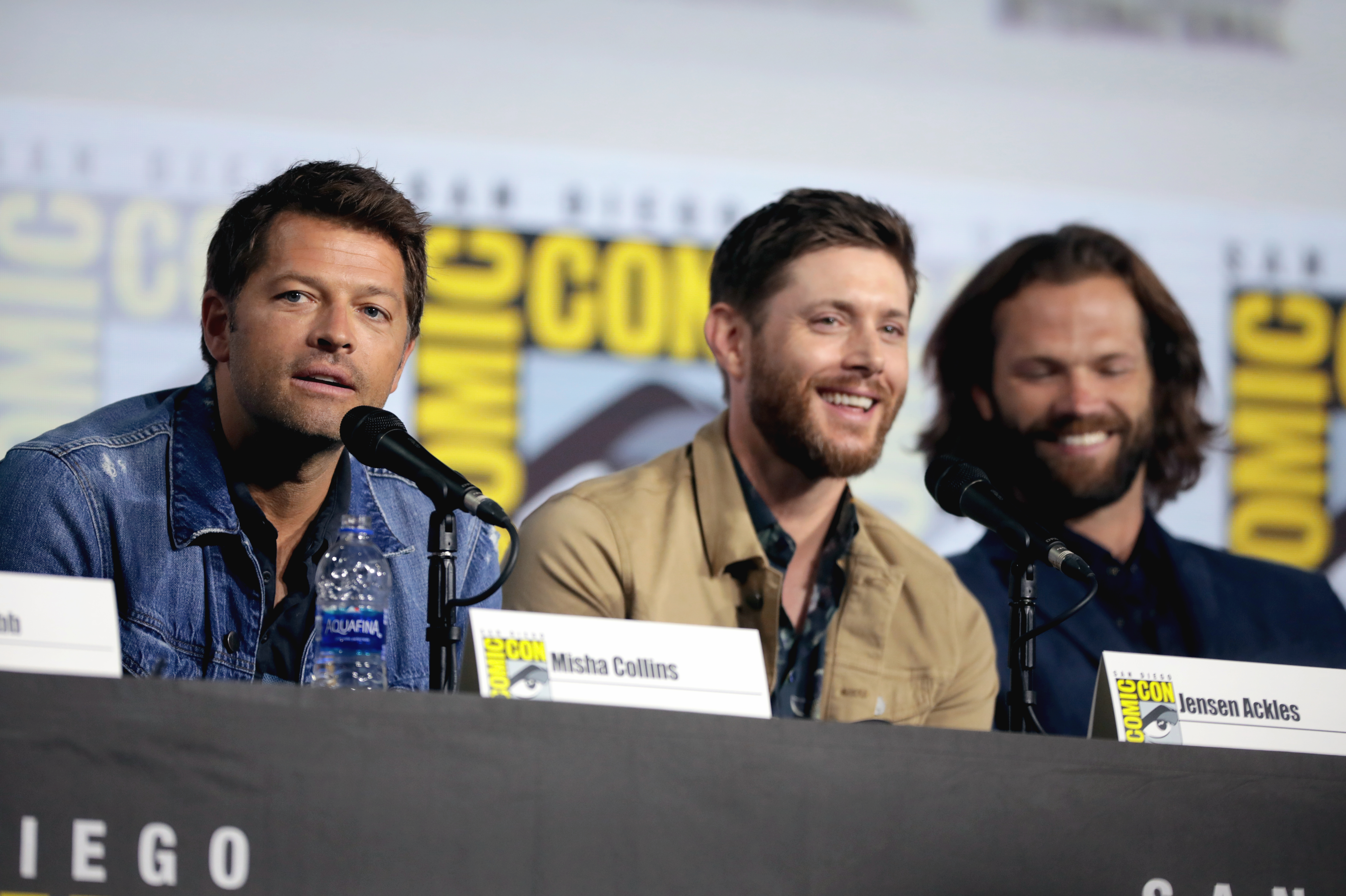 Misha Collins, Jensen Ackles and Jared Padalecki speaking at the 2019 San Diego Comic Con International, for "Supernatural", at the San Diego Convention Center in San Diego, California.